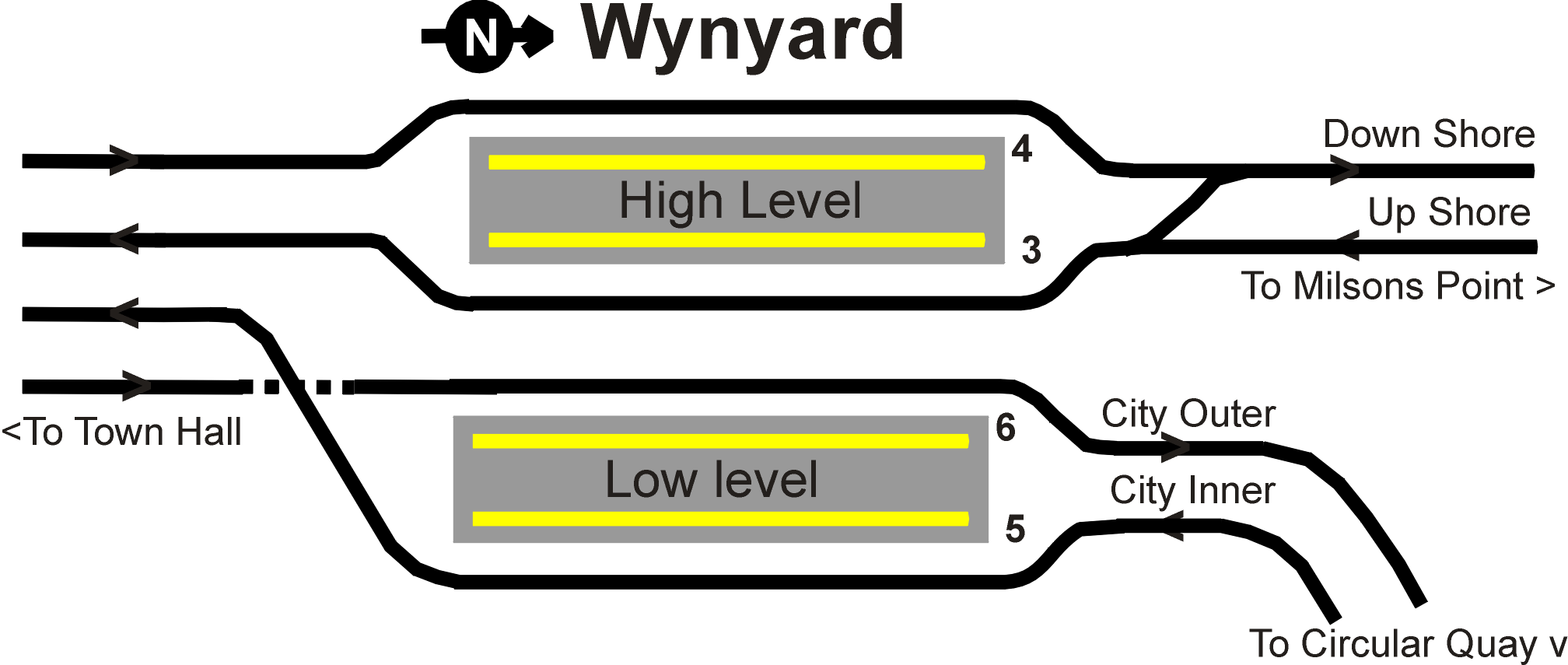 Track layout at Wynyard railway station, Sydney